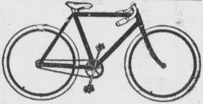 in 1904, this image of a bicycle appeared in an advertisement for Fuller Knatvold Co., of Tacoma, WA